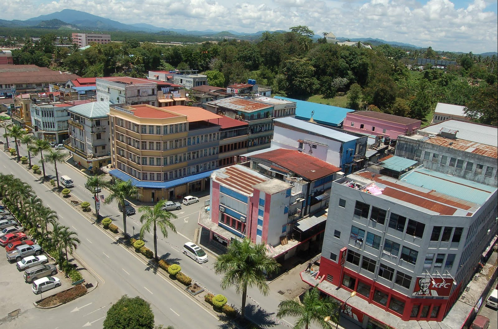 Lahad Datu town